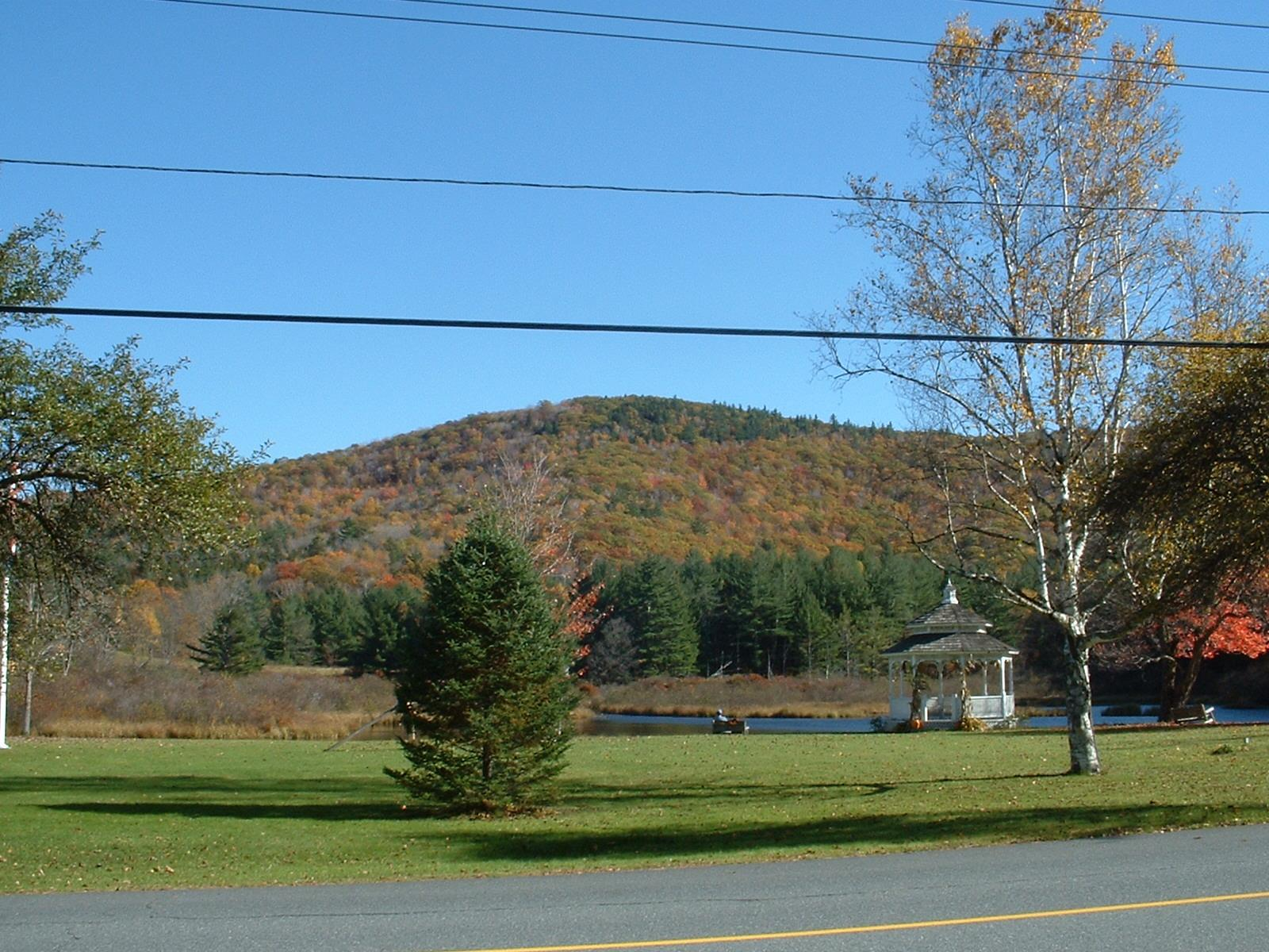 Adams Mountain, with Mill Pond and the Town Common in the foreground, Rowe, Massachusetts Zoar Rd, Rowe, MA